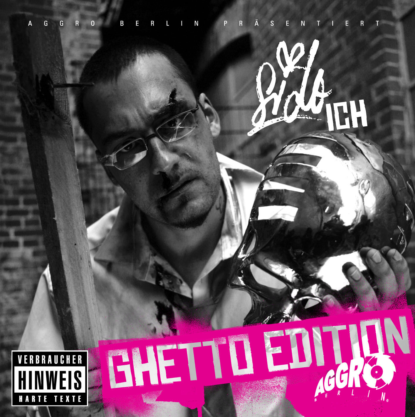 Cover des Albums „Ich“ (Ghetto Edition)